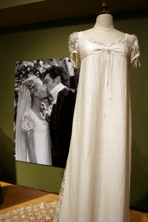 Dress worn by Gwyneth Paltrow in Emma.